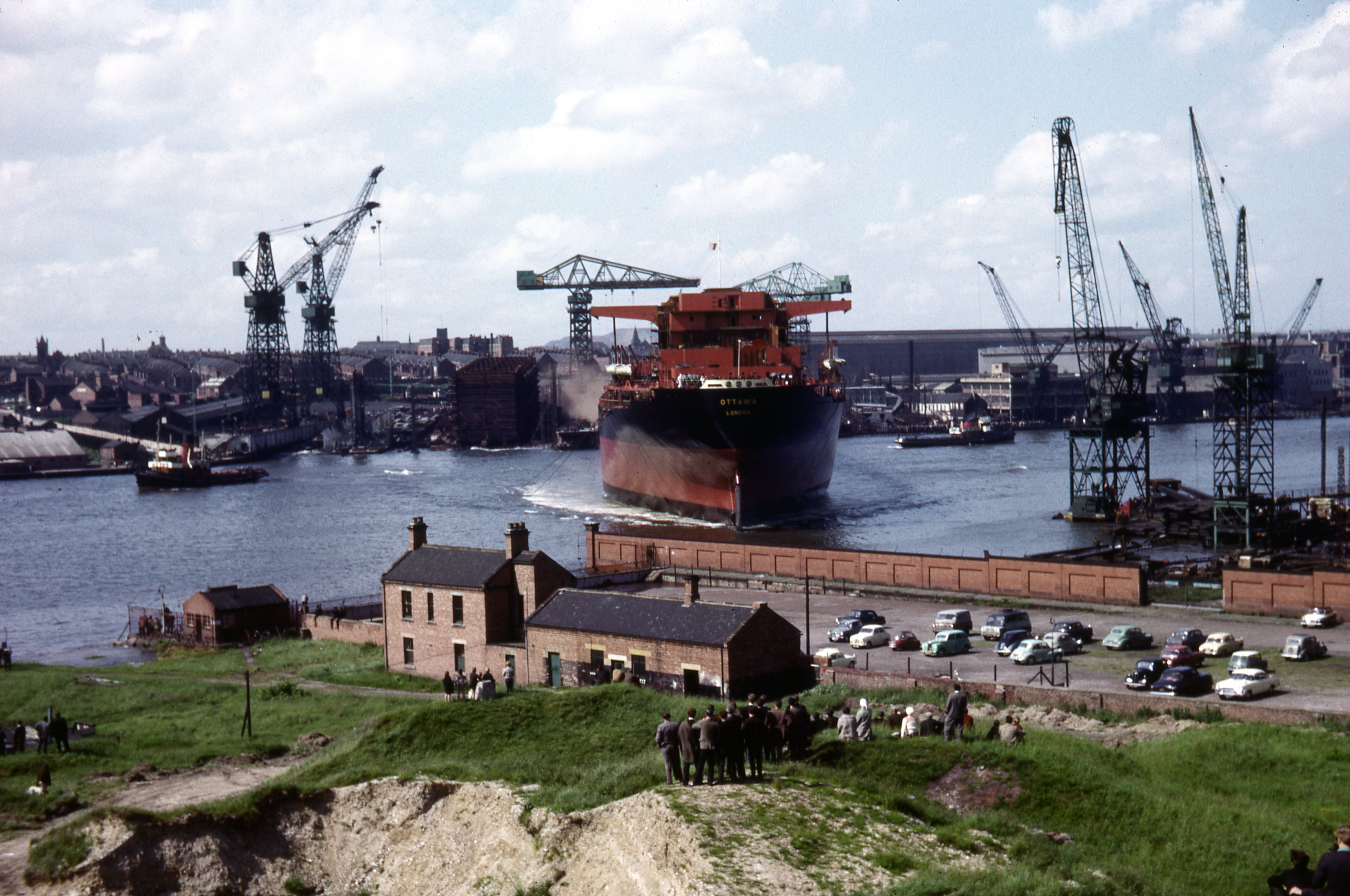 This photograph is part of the Shipbuilding on the River Tyne, 1960 - 1977 collection which was kindly donated to Tyne & Wear Archives & Museums. Taken by Ronald Sanderson, this photograph captures a view of the river probably taken from the Commercial Road area of South Shields, of The Ottawa launched into the river and being turned with the aid of the tugs in front of spectators. This photograph was taken in 10th June 1964 [1]. It is a 35mm slide. The Ottawa was one of a large number of ships to bear this name, but this particular one was a tanker built at Swan Hunter's Wallsend yard in 1964 for Trident Tankers Ltd. (Copyright) We're happy for you to share this digital image within the spirit of The Commons. Please cite 'Tyne & Wear Archives & Museums' when reusing. Certain restrictions on high quality reproductions and commercial use of the original physical version apply though; if you're unsure please